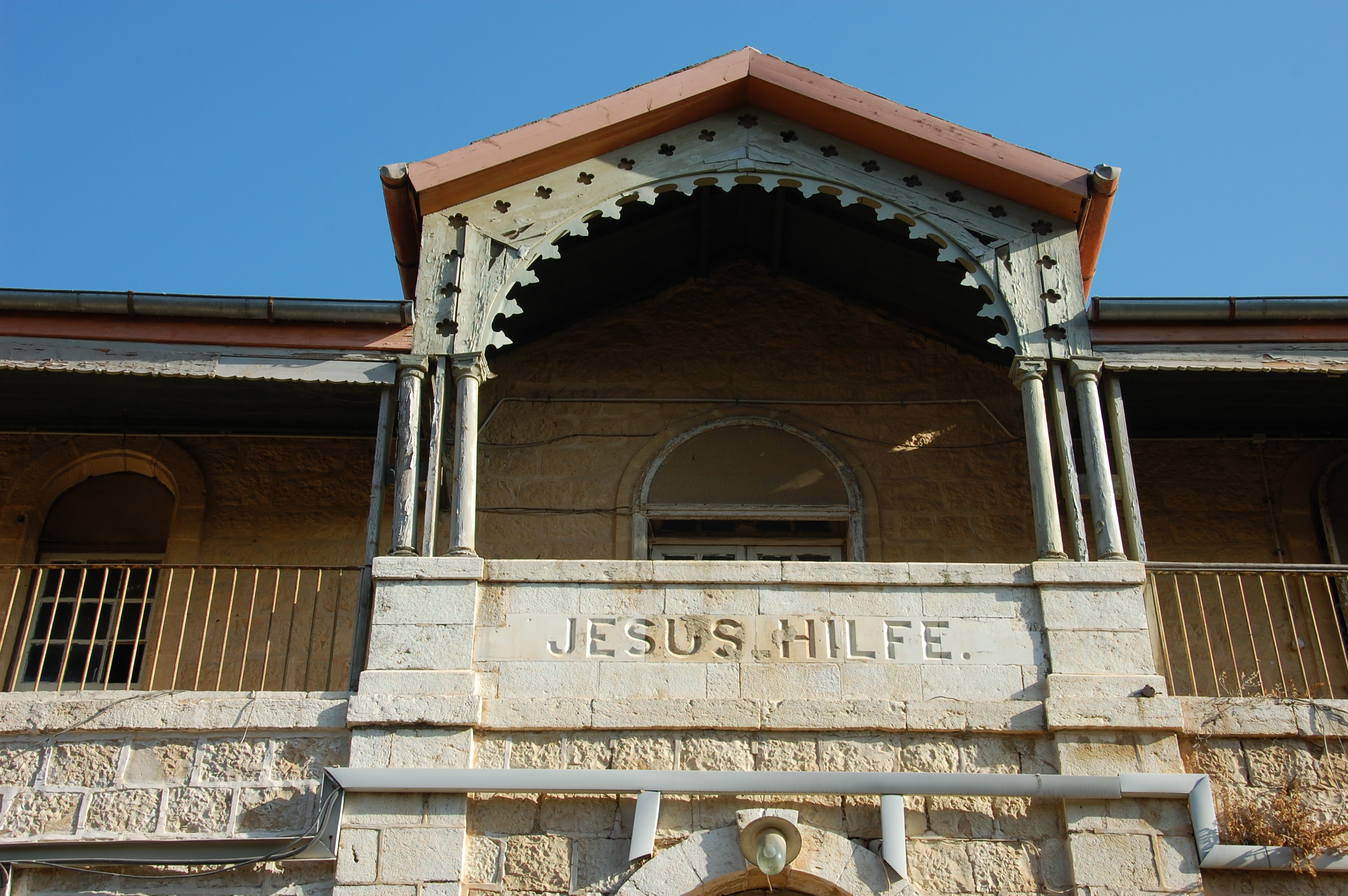 Hansen hospital,talbia,jerusalem, 2008